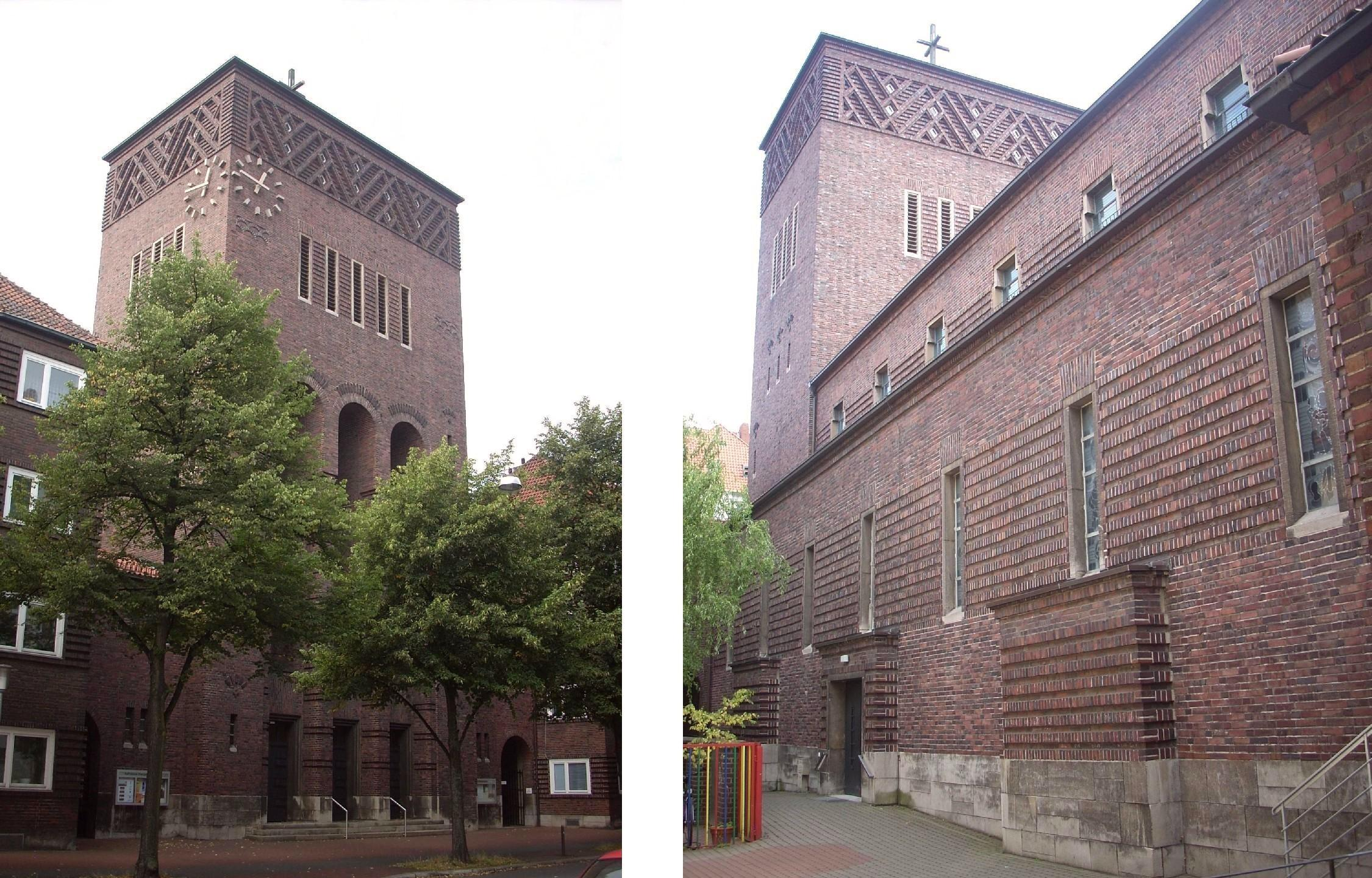 Hannover, St. Heinrich Catholic Church